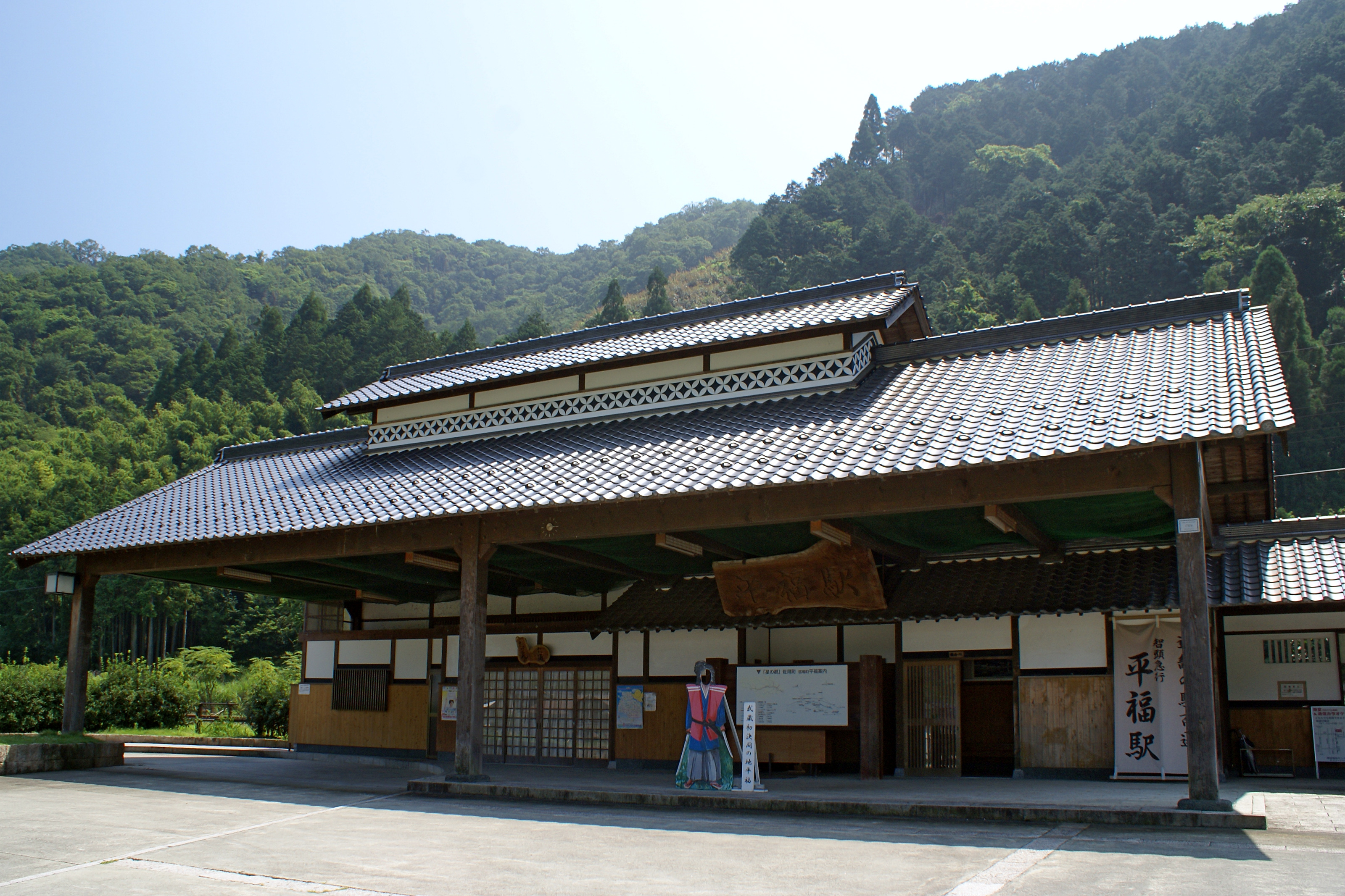 Hirafuku Station in Hirafuku, Sayo, Hyogo prefecture, Japan